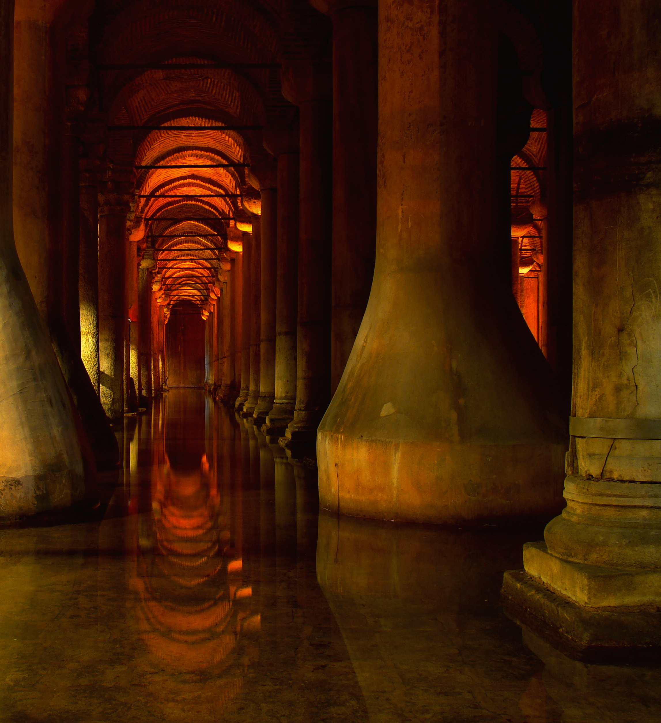 A row of columns in the Basilica Cistern in the old town of Istanbul. The cistern is an artificially illuminated tourist attraction these days. There is fish in the water.